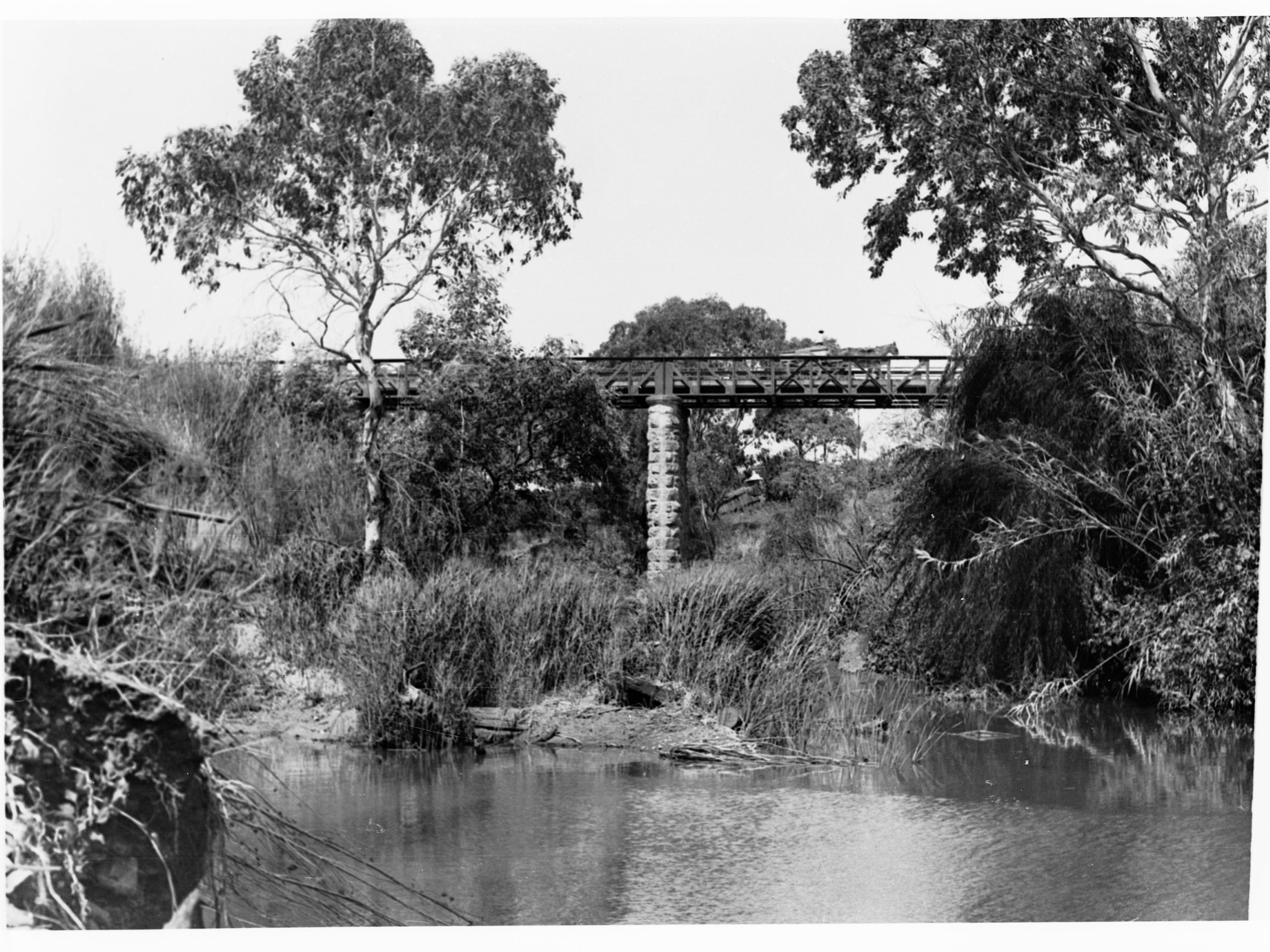 Index says River Torrens - Felixstowe Bridge (G. Brooks)